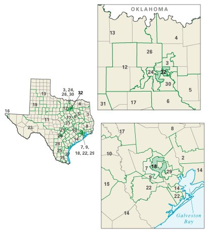 This image is derived from images of the National Atlas of the United States.